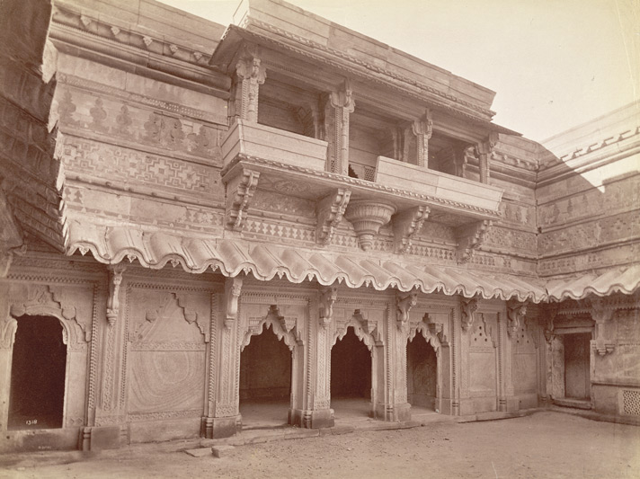 Eastern face of Inner Court yard of Man Mandir, Gwalior Fort